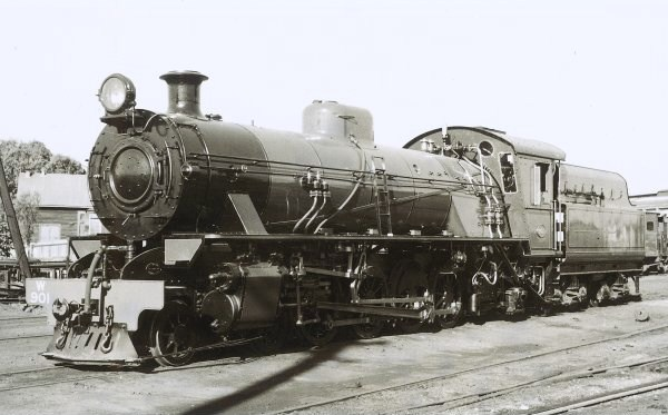 WAGR W class steam locomotive class leader no. W901, at East Perth, Western Australia.